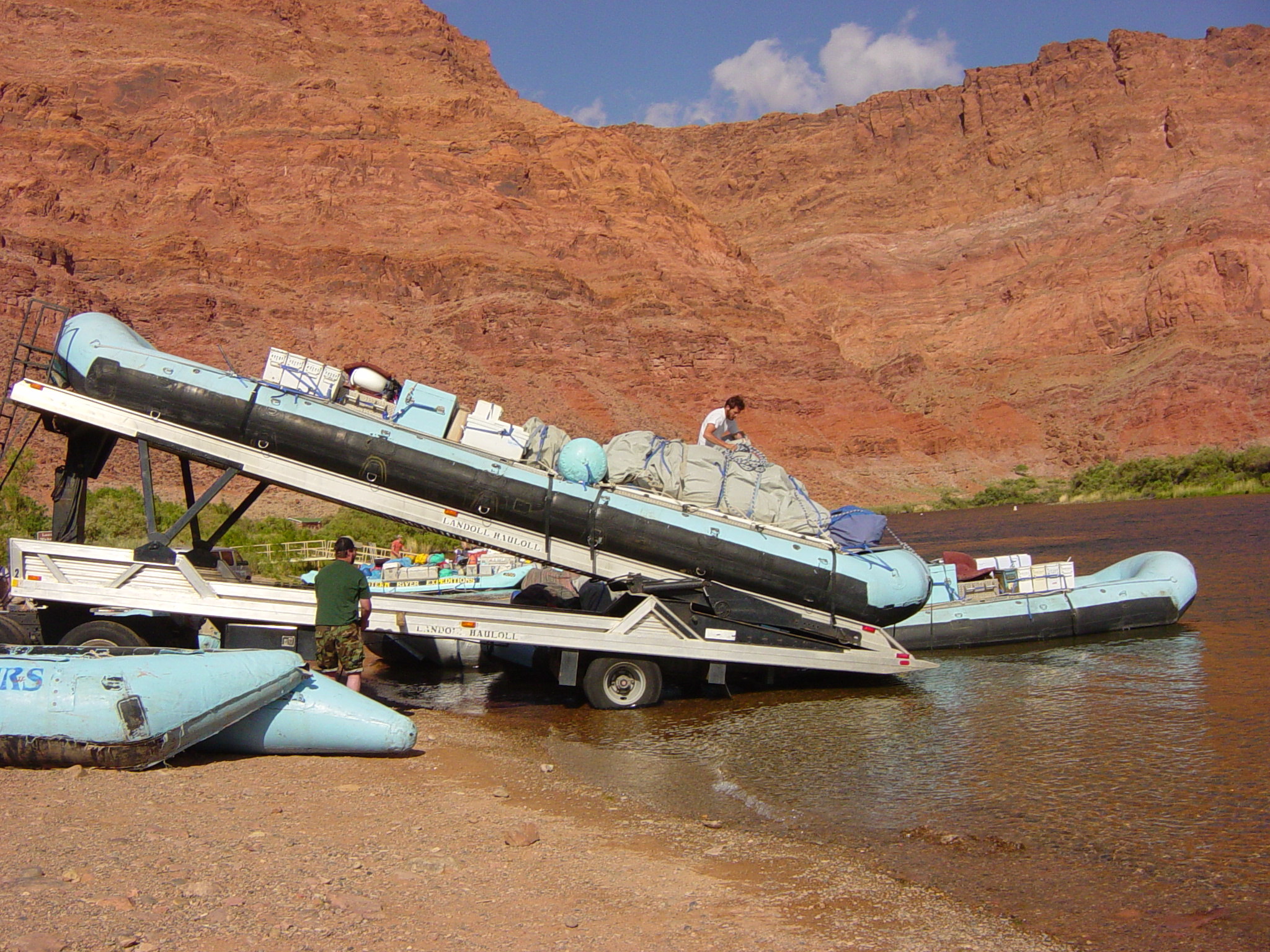 Raft launch at Lee's Ferry preparatory to a trip through the Grand Canyon. Additional side floats will be attached for the downriver trip. Image by and upload by User:Leonard G. thumb|left|Essential supplies await loading onto the raft shown above